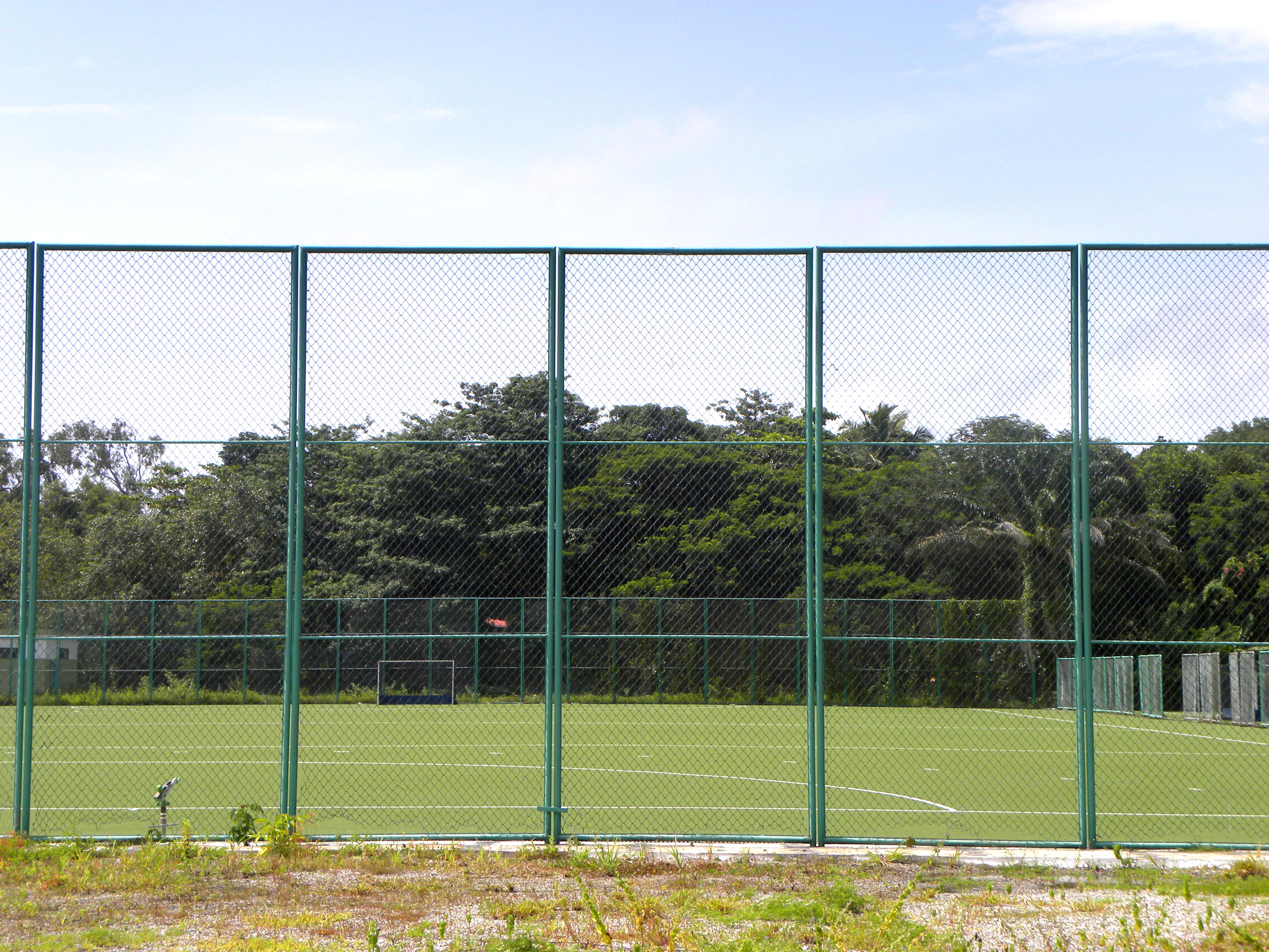 Kollam International Hockey stadium is the only astro-turff stadium in Kerala